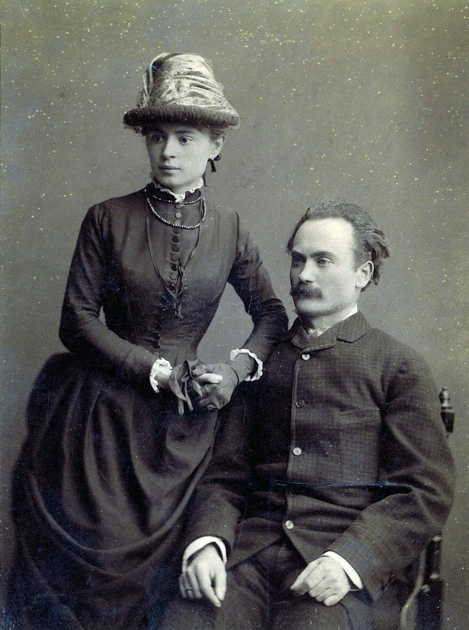 Ivan Franko (1856–1916), Ukrainian poet and writer, social and literary critic, journalist, economist, and political activist, with wife Olha Khoruzhynska.